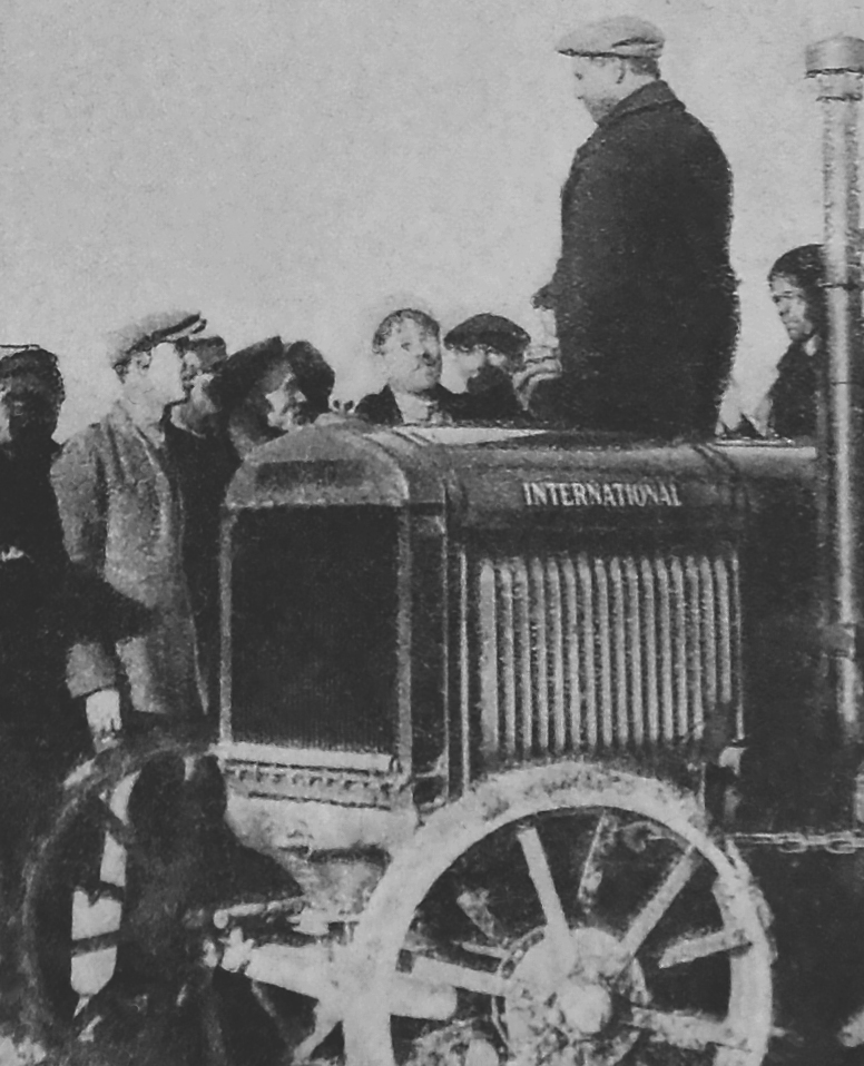 McCormick-Deering 15-30 (production International Harvester) on the fields of the Ukrainian SSR. This model of tractors was later manufactured as KhTZ 15-30 and STZ 15-30. Production in Kharkiv (KhTZ) since 1931 and Stalingrad (STZ) since 1930. Both industrial sites designed by Albert Kahn Inc and built by McClintock and Marshall.